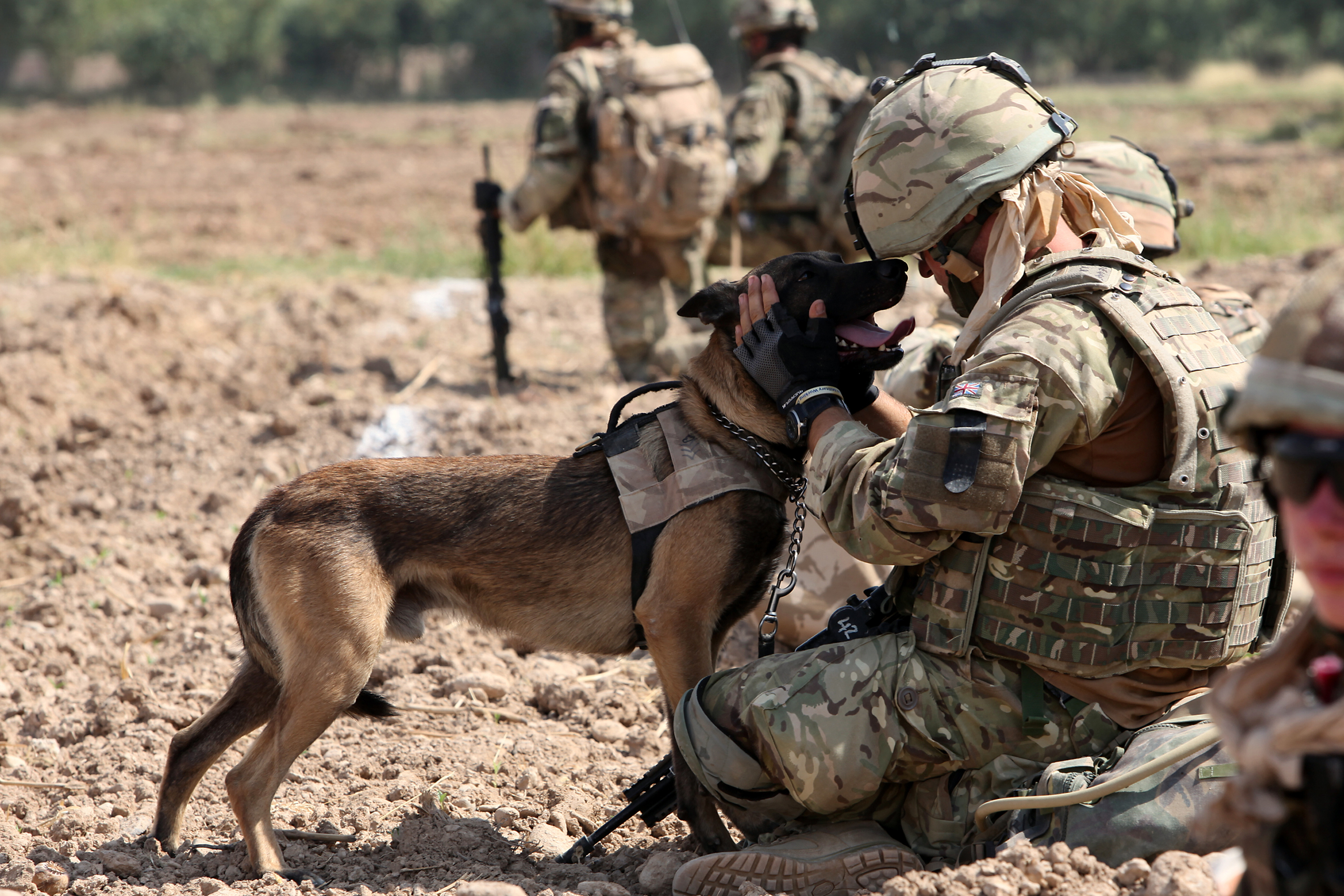 Lance Cpl. Tom Welstand, a native of Bury St Edmunds, United Kingdom, and a military working dog handler with 103 Military Dog Squadron, shares a moment with his search dog, Steegan, during Operation Zamrod Olai, June 25, in northern Nad'Ali district, Helmand province. Welstand and Steegan were operating in support of M Company, 42 Commando, who were sweeping the area to disrupt insurgent activity and movement. M Company expected the area to be heavily mined with improvised explosive devices, making Steegan a crucial part of the team. Regional Command Southwest Photo by Staff Sgt. Jeremy Ross Date Taken:06.25.2011 Location:AF Related Photos